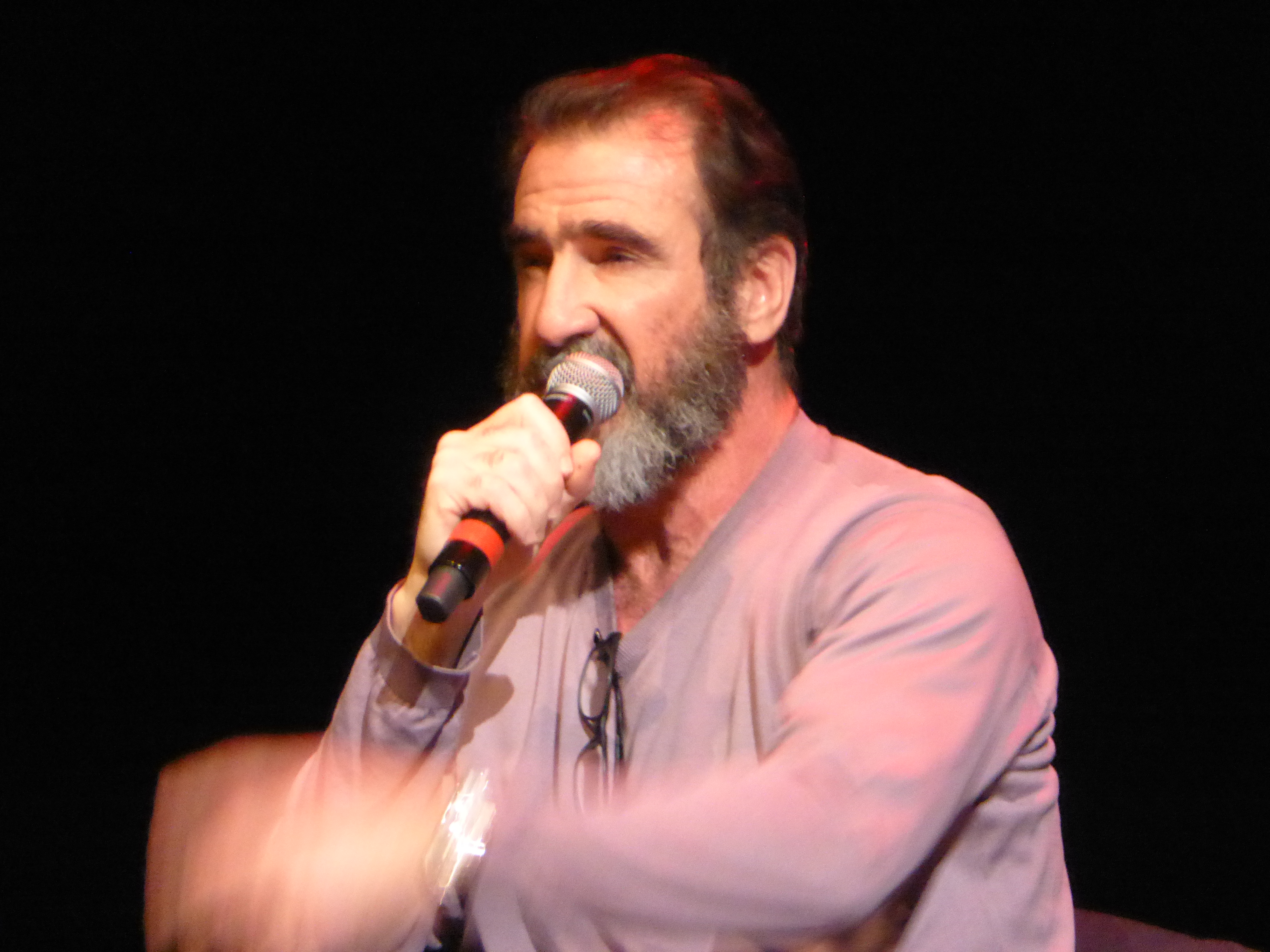 Eric Cantona, The Lowry, Salford, Greater Manchester, England, February 2017